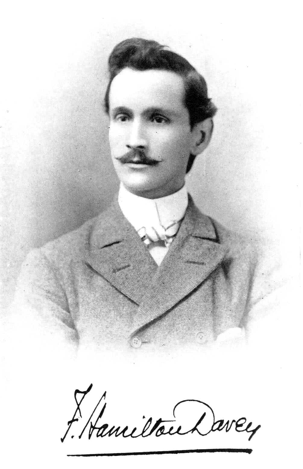 Frederick Hamilton Davey (1868-1915), English botanist